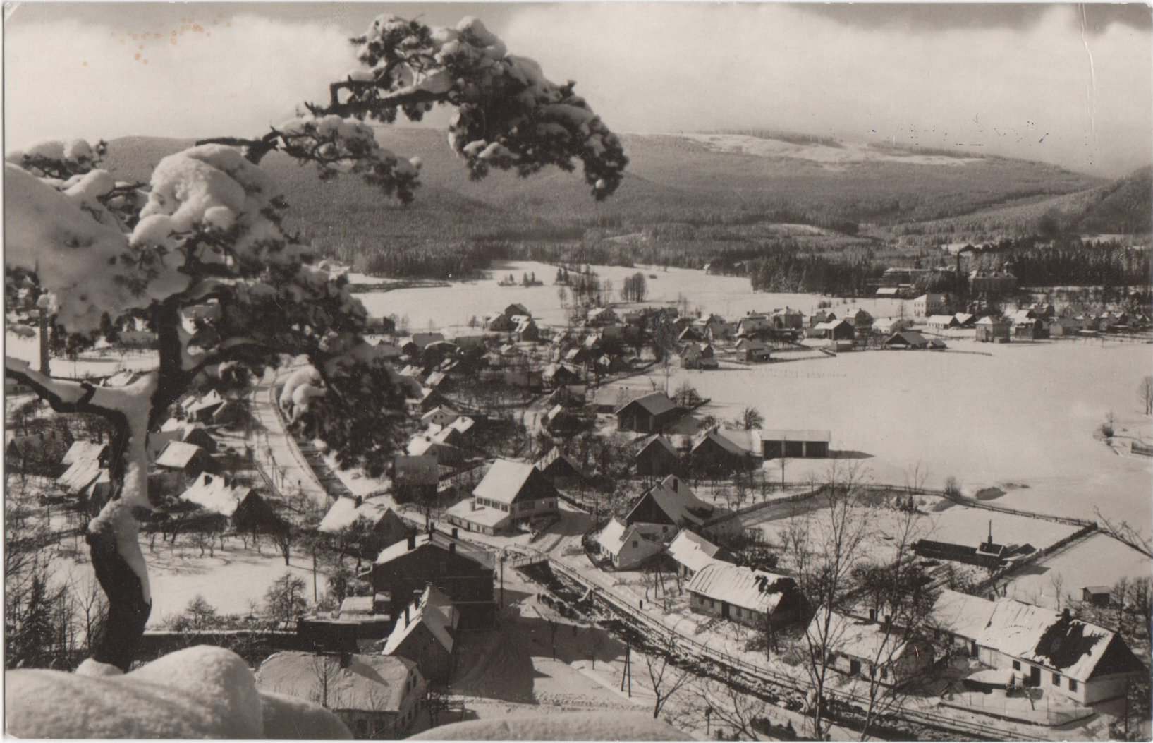 Unidentified location in Czechoslovakia of the second half of the 20th century.